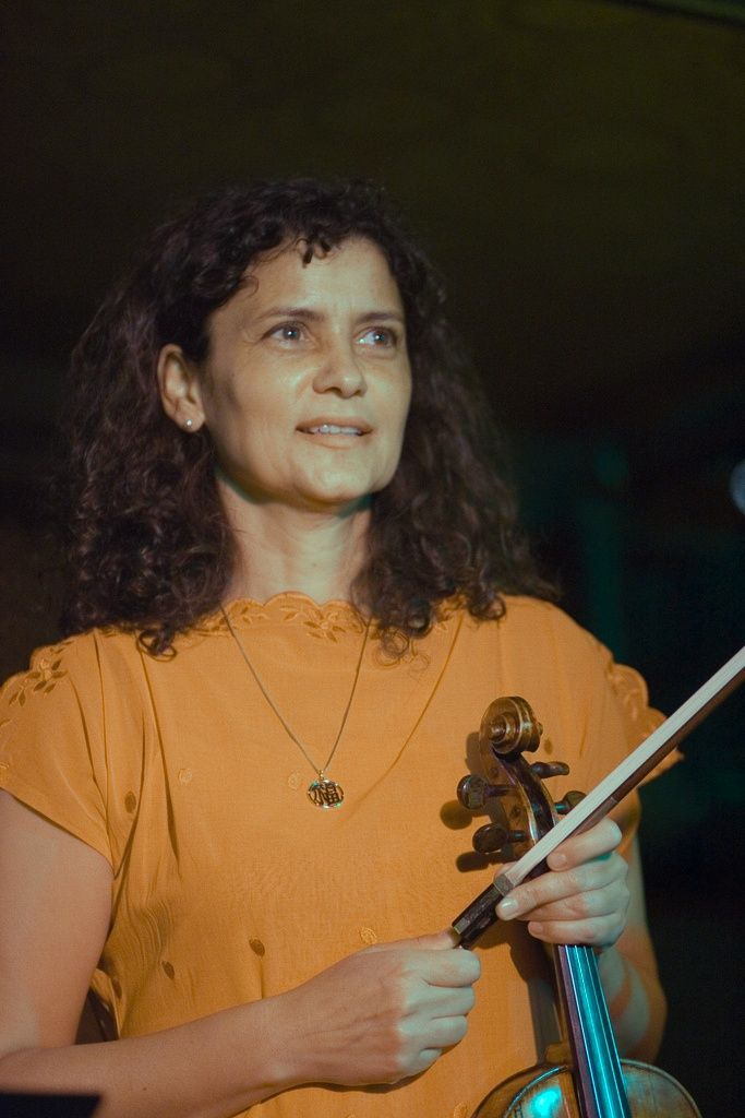 Iva Bittová performing at Union Hall, Brooklyn, New York City, 2007-09-25.